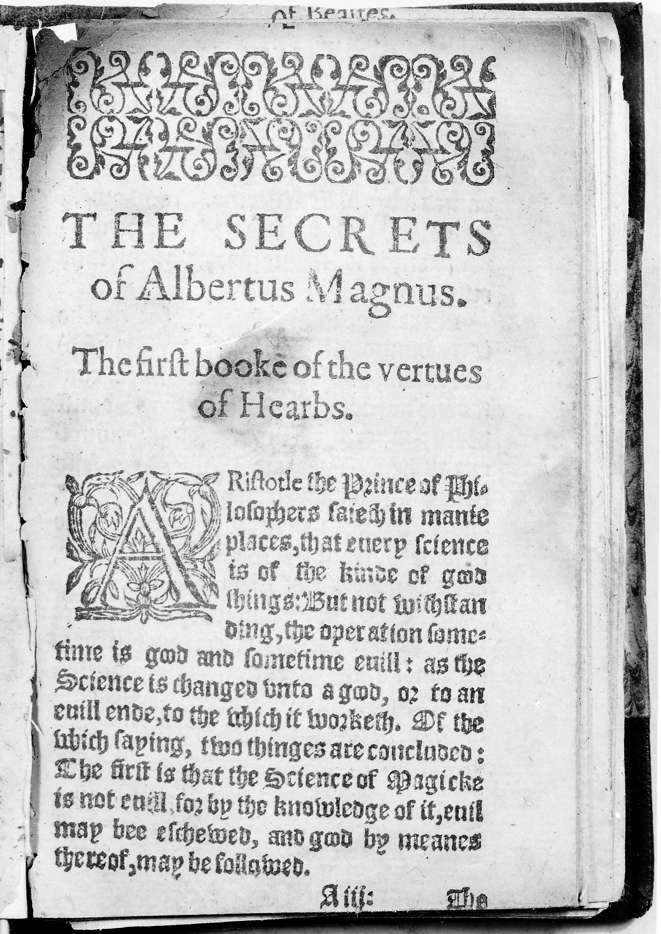 Portrait of Albertus Magnus. Rare Books Keywords: Albertus Magnus